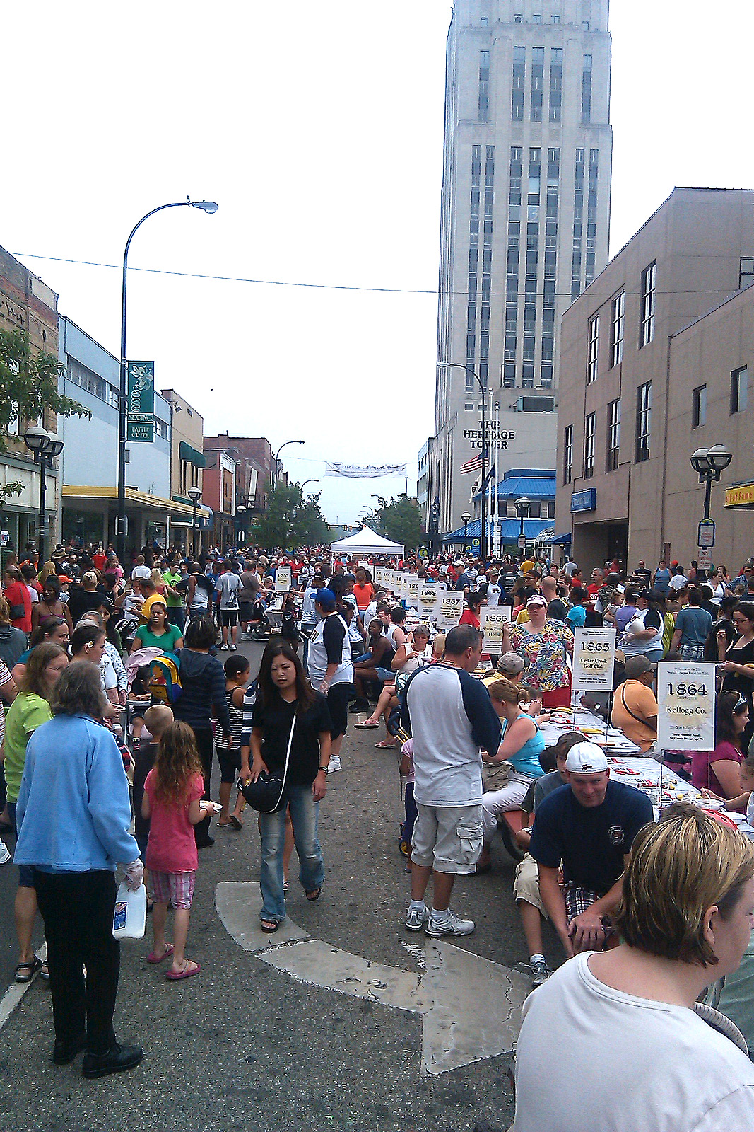 Photo of the 2010 "World's Longest Breakfast Table" festival in downtown Battle Creek, Michigan. Photo taken at the intersection of McCamly Street and West Michigan Avenue - looking east down Michigan Avenue - on Saturday, 12 June 2010.